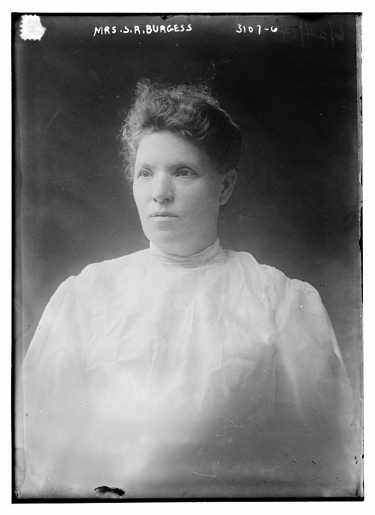 Mrs. S.R. Burgess circa 1915 Bain News Service,, publisher. Mrs. S.R. Burgess [between ca. 1910 and ca. 1915] 1 negative : glass ; 5 x 7 in. or smaller. Notes: Title from unverified data provided by the Bain News Service on the negatives or caption cards. Forms part of: George Grantham Bain Collection (Library of Congress). Format: Glass negatives. Repository: Library of Congress, Prints and Photographs Division, Washington, D.C. 20540 USA, General information about the Bain Collection is available at Persistent URL: Call Number: LC-B2- 3107-6